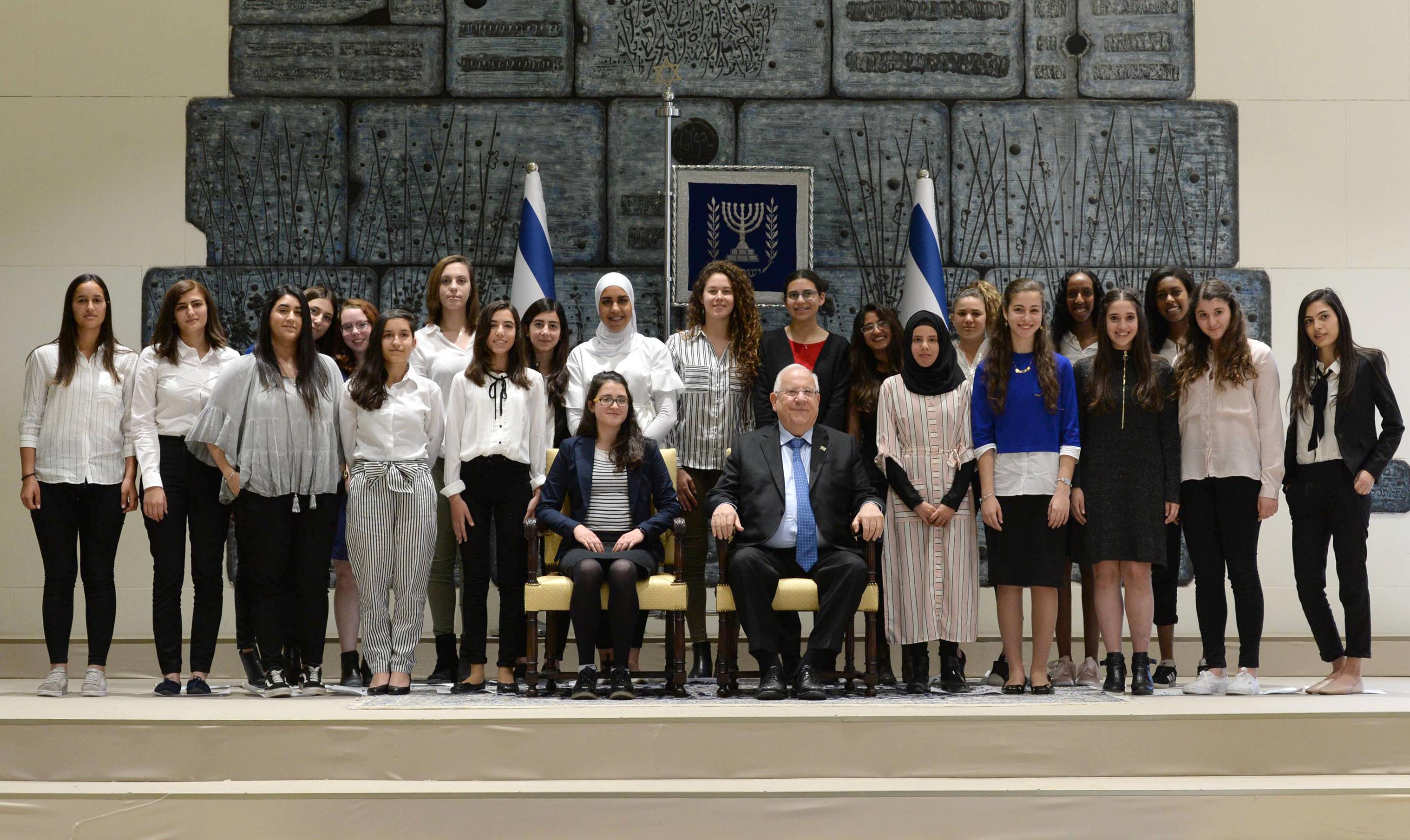 President of Israel, Reuven Rivlin, at a meeting with leading female students in honor of International Women's Day. Tuesday, March 6, 2018. Depicted person: Reuven Rivlin – Israeli politician, 10th President of Israel